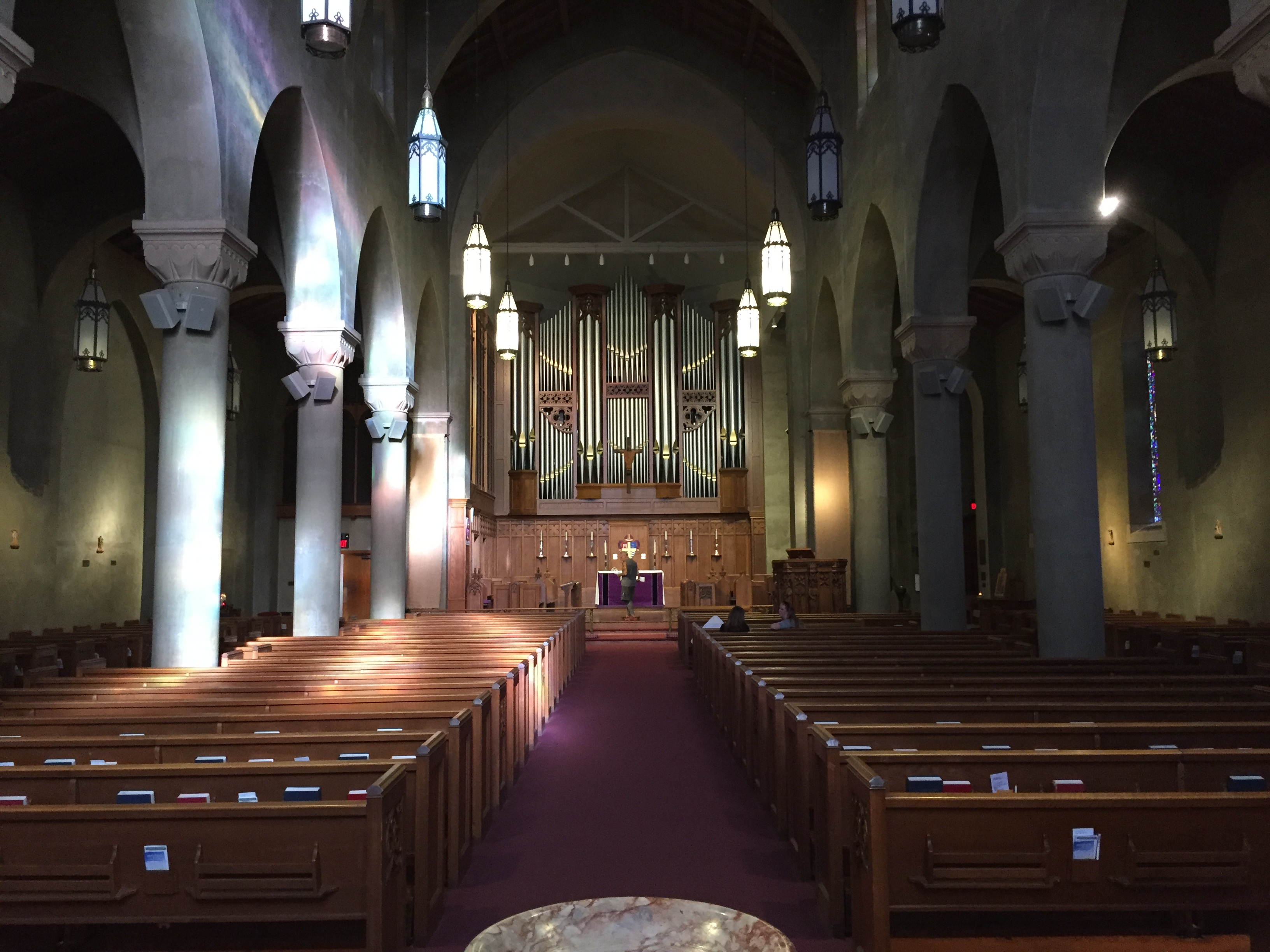 I User:Gateman1997 am the producer of this image